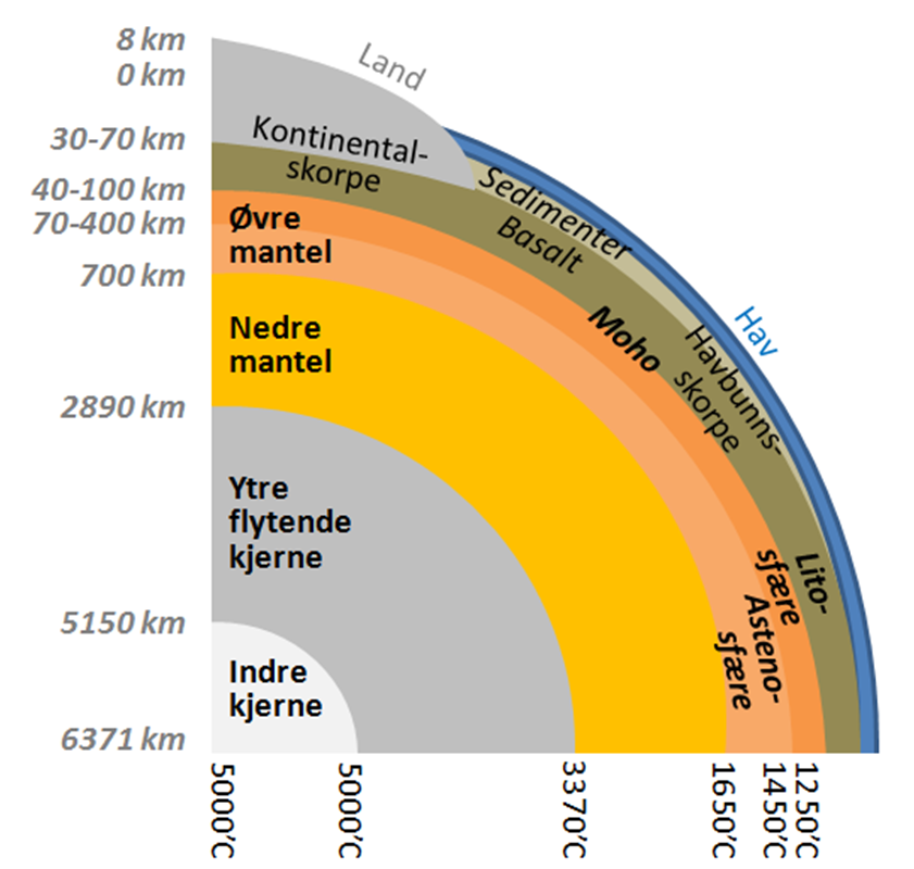 Earth cutaway in Norwegian language. PNG format. Corrected.